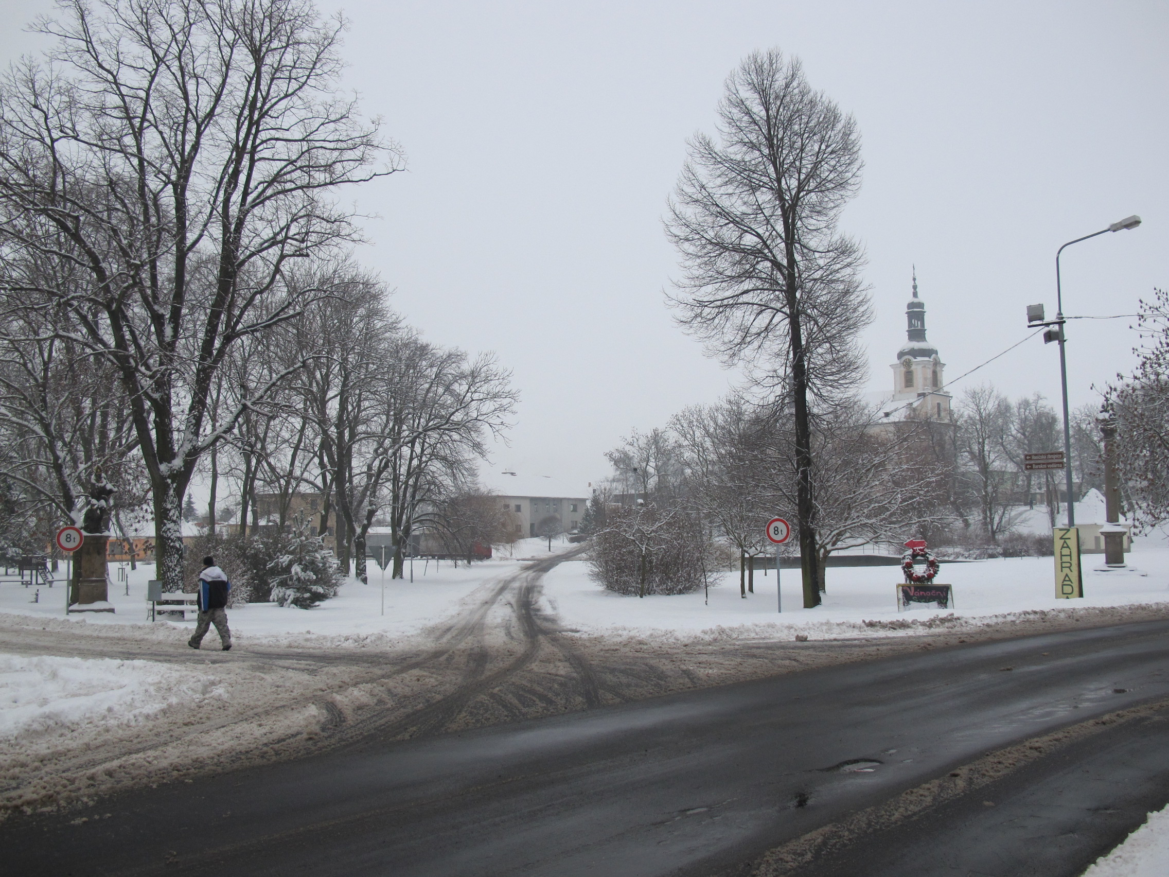 Willage square in Cítoliby